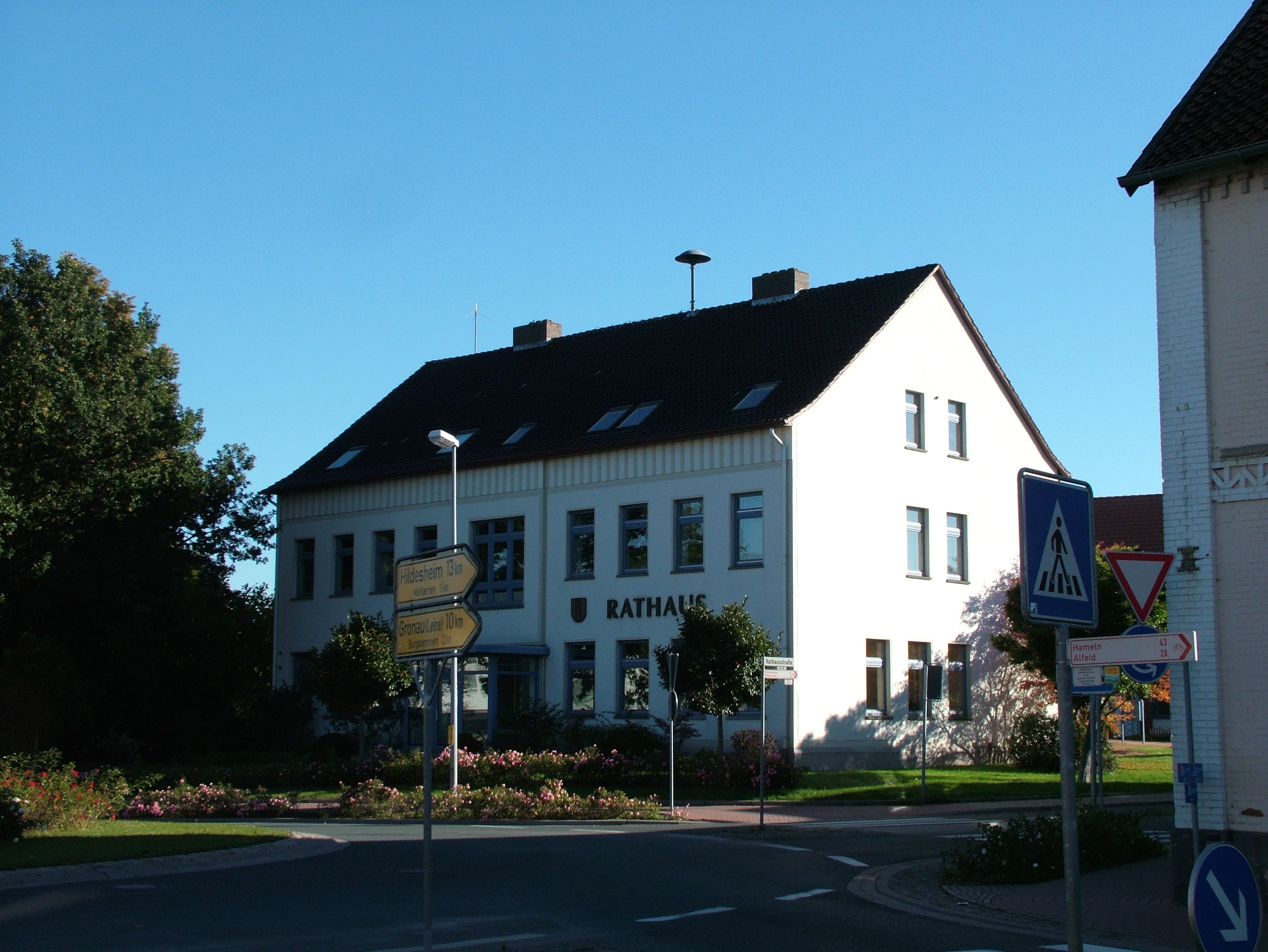 The Guildhall, Nordstemmen, Germany